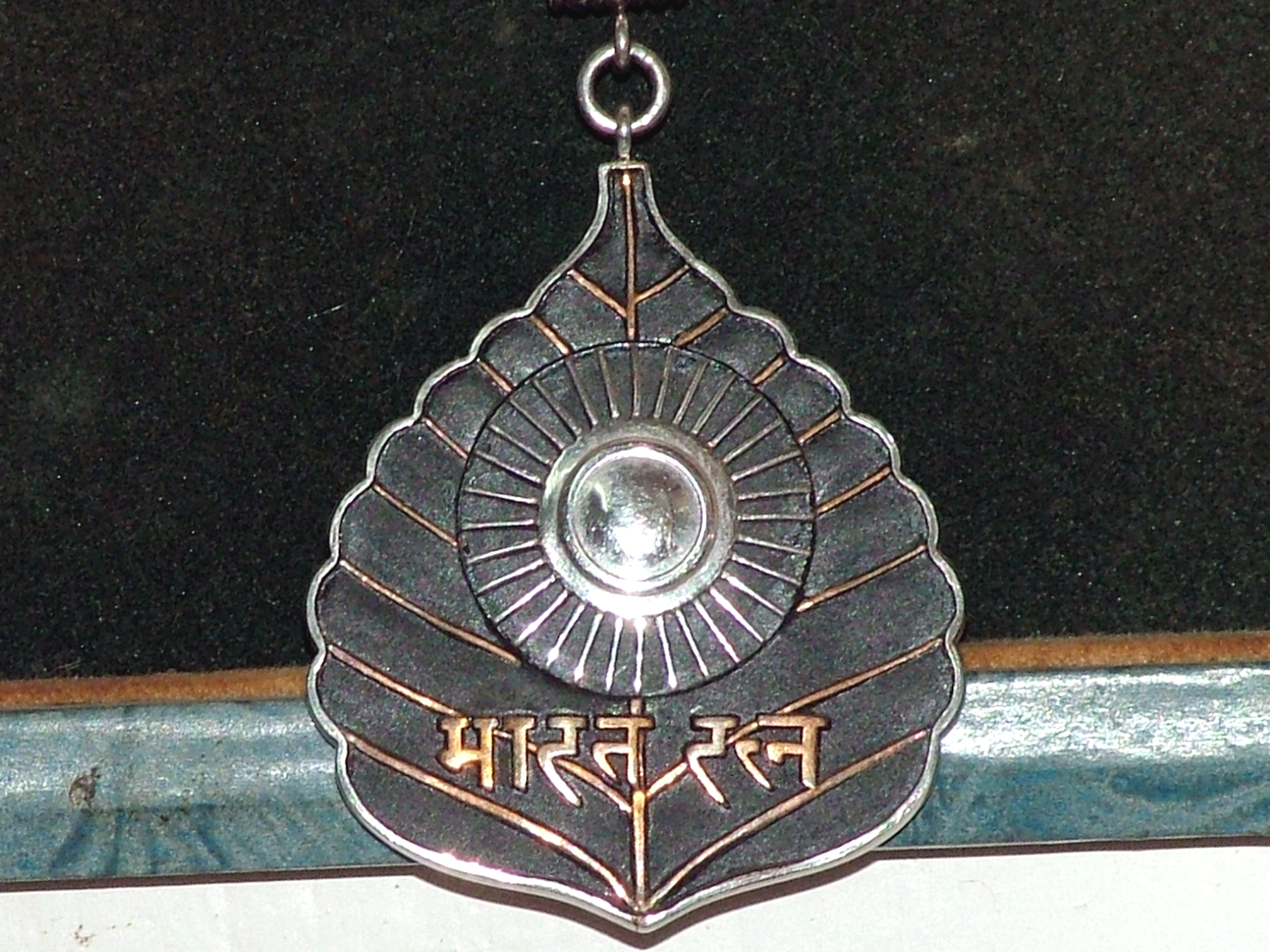 The Bharat Rathna Medal given to M. G. Ramachandran